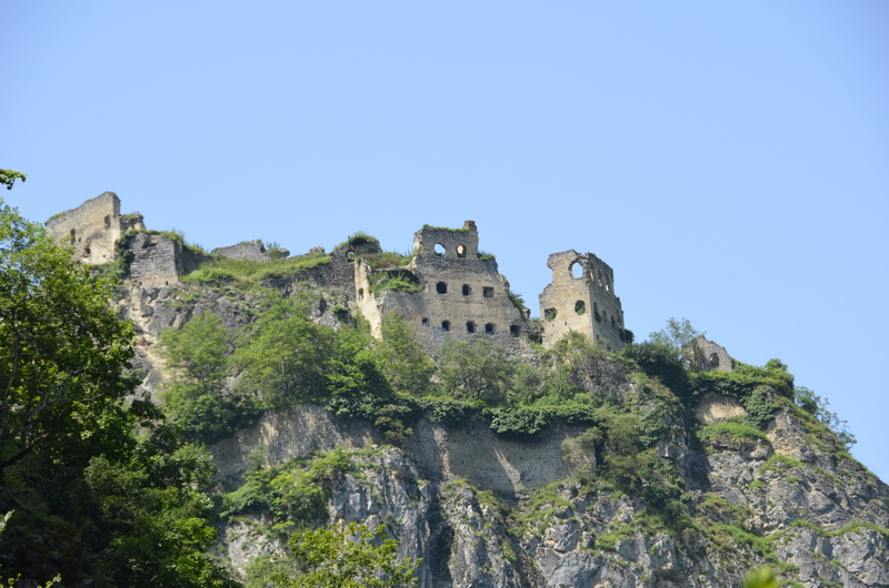 Kustul Monastery Trabzon